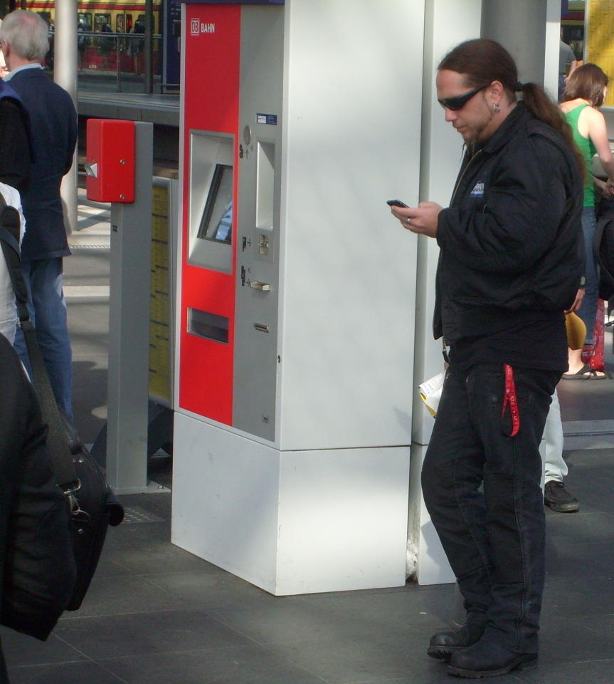 Star Search Winner Martin Kesici